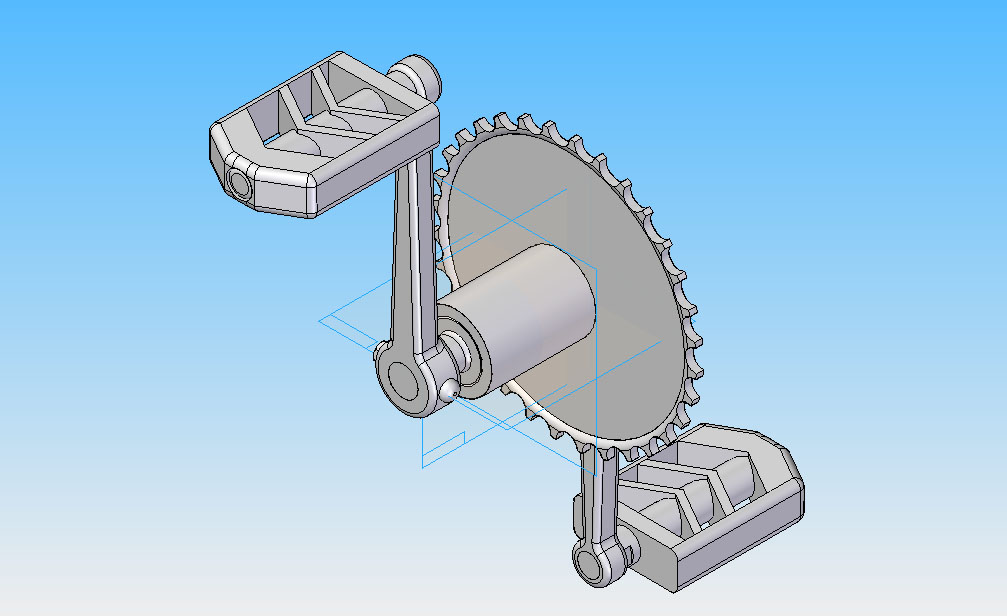 bicycle crank with pedals